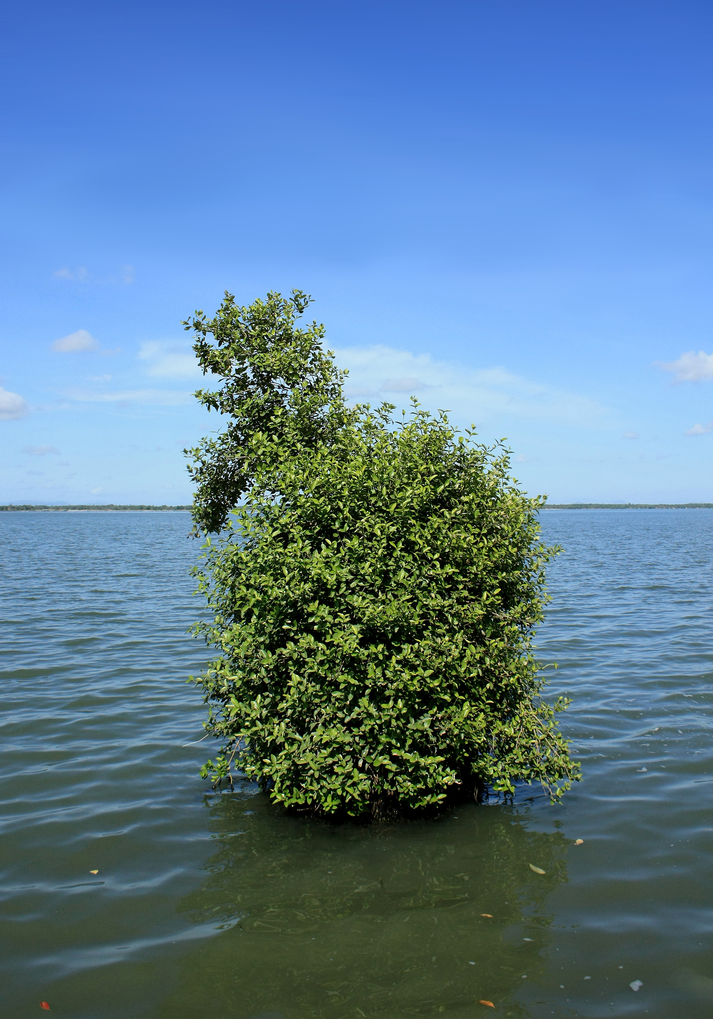 Avicennia marina, commonly known as grey mangrove or white mangrove in Batticaloa Lagoon (Eastern Province, Sri Lanka)